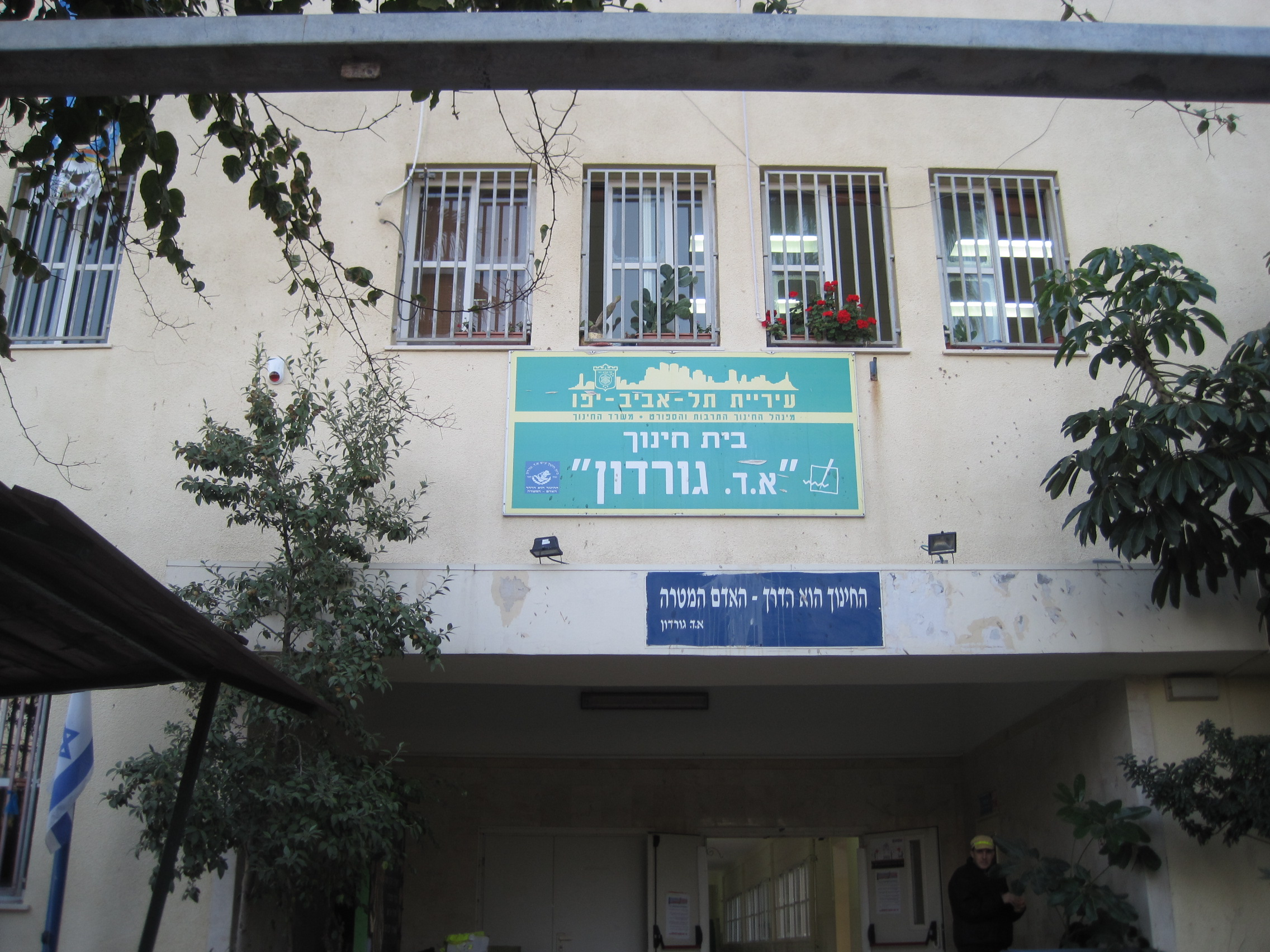 Gordon School